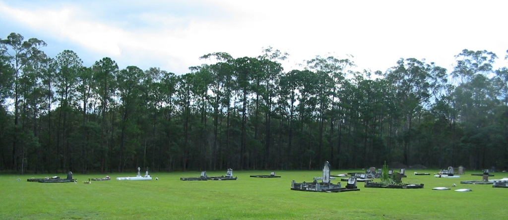 Carbrook Lutheran Cemetery - low wide view, 2005